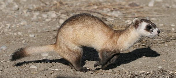 Running Black-footed Ferret. Credit: J. Michael Lockhart / USFWS